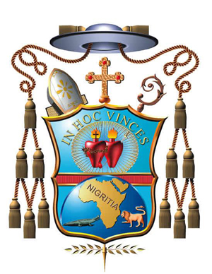 Emblem of Combonian Missioners, from an old publication